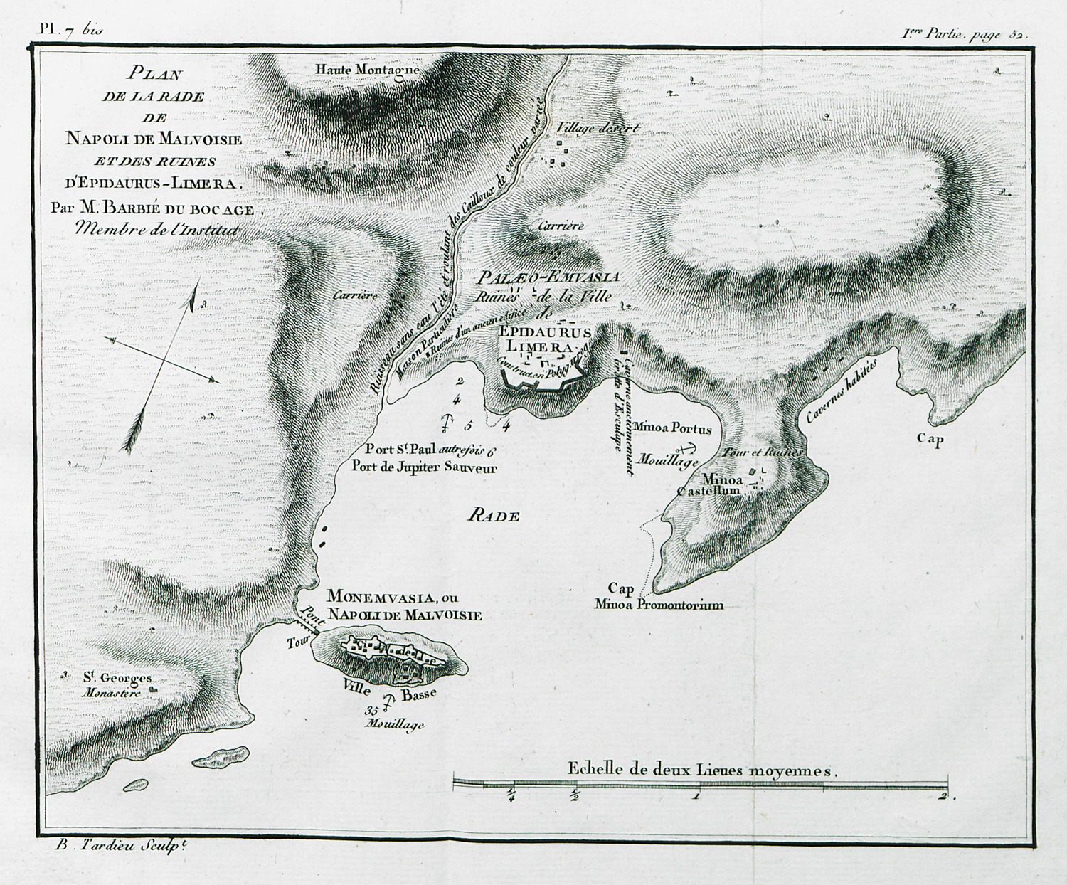 Antoine-Laurent Castellan. Lettres sur la Morée et les iles de Cérigo, Hydra, et Zante, avec vingt-trois Dessins de l’Auteur, gravés par lui-même, et trois Plans, Paris, Η. Agasse, 1808.